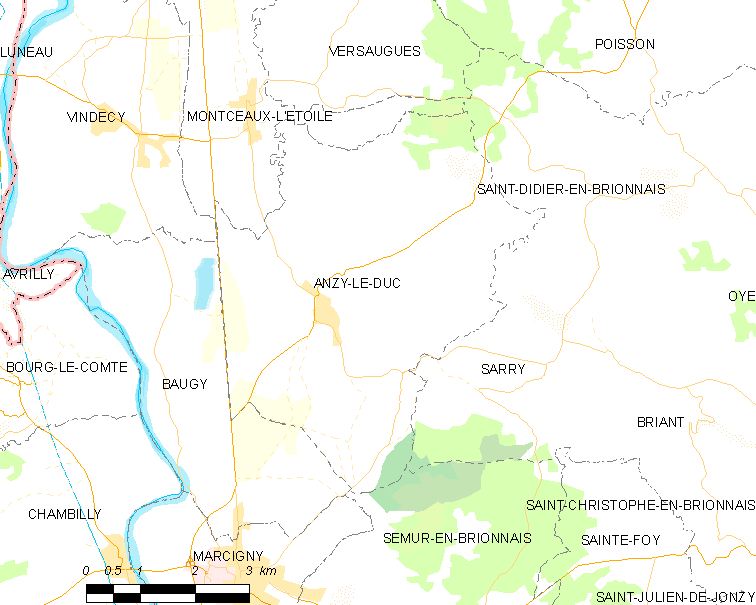 Map of French municipality